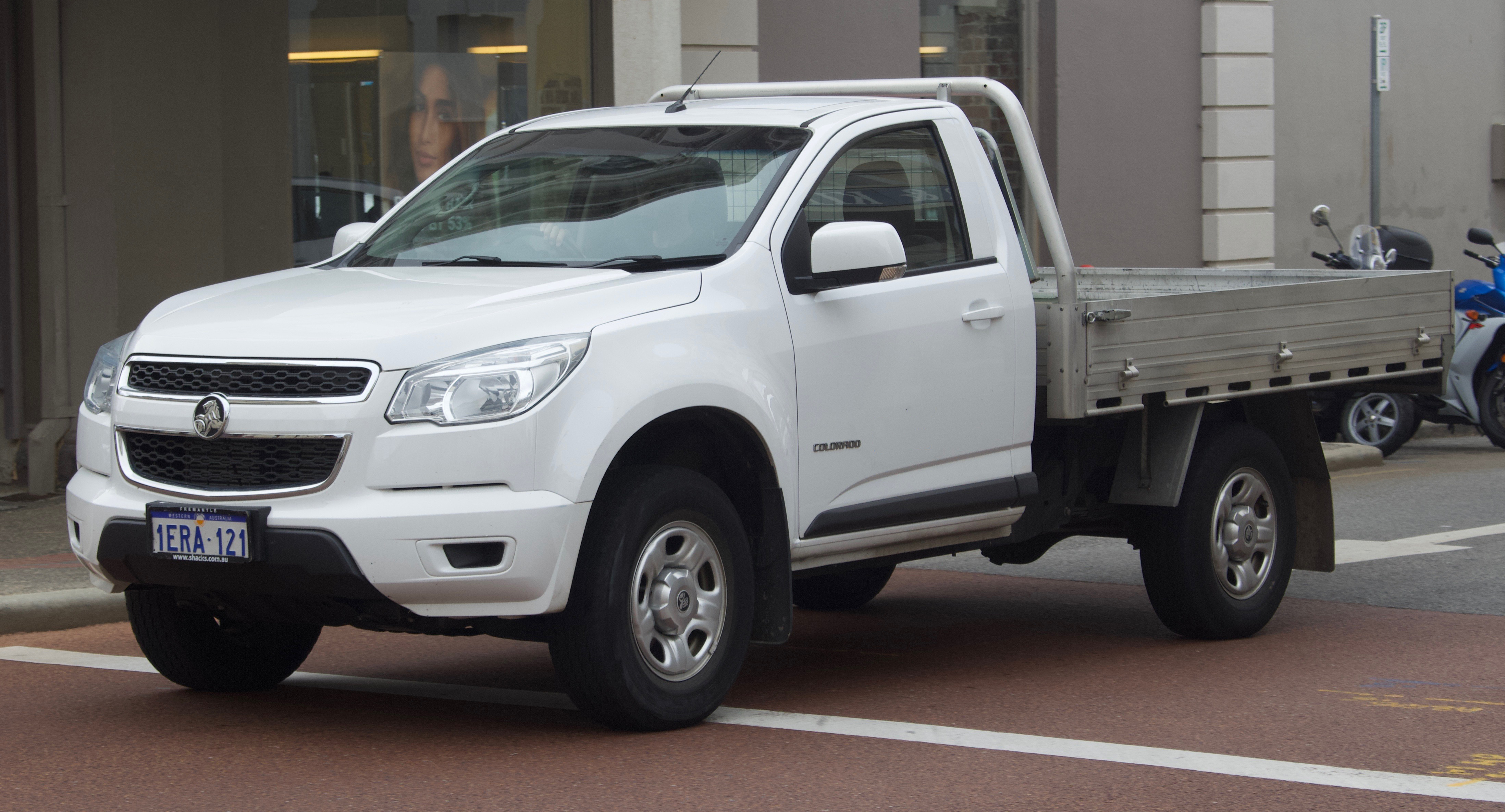 2014 Holden Colorado (RG MY15) LS 2-door cab chassis. This is the MY15 update, where the LX versions were renamed LS. Also determinable by the body colour door handles and mirrors. Photographed in Fremantle, Western Australia, Australia.